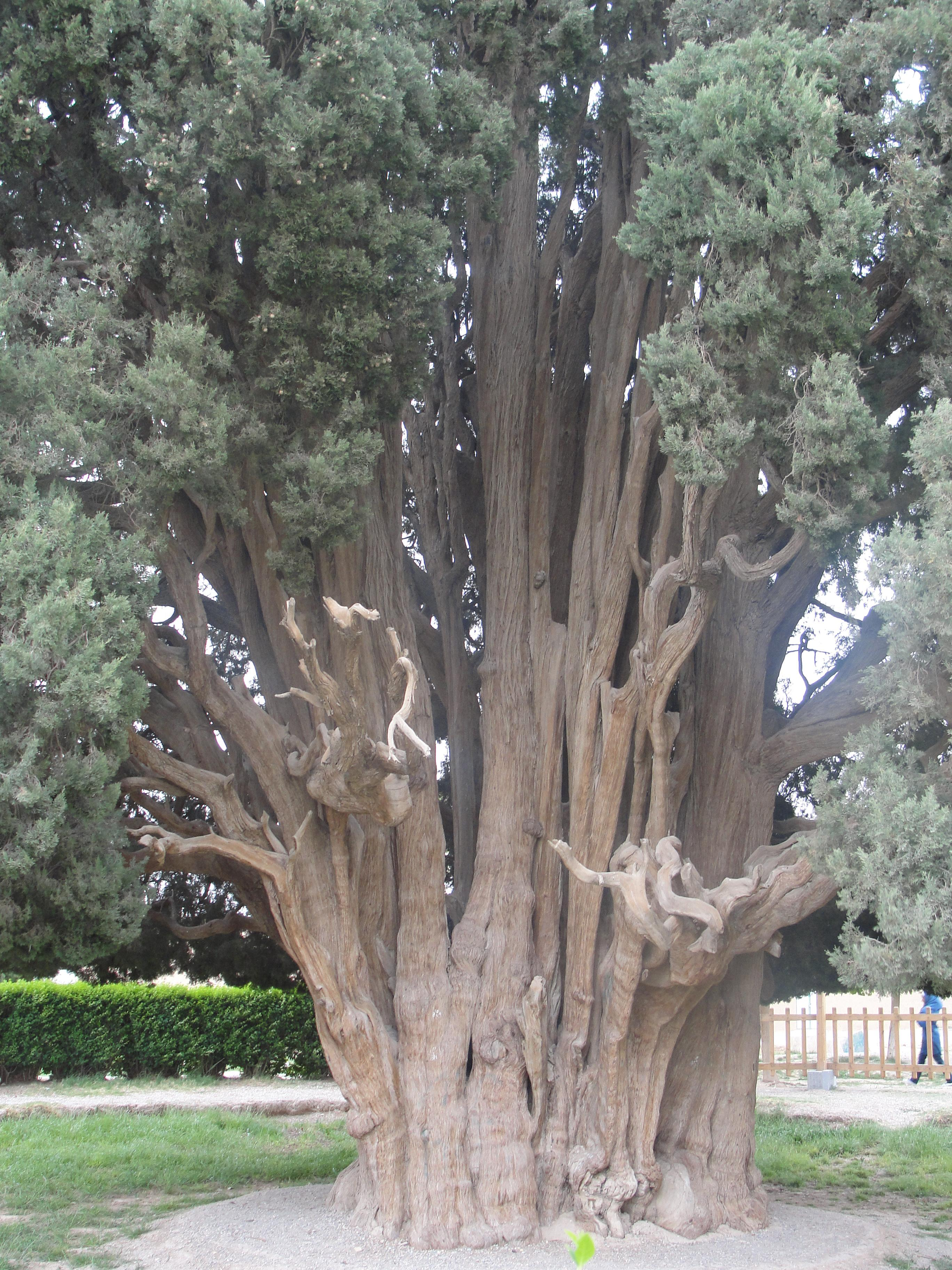 Cypress of Abarqu - Bough